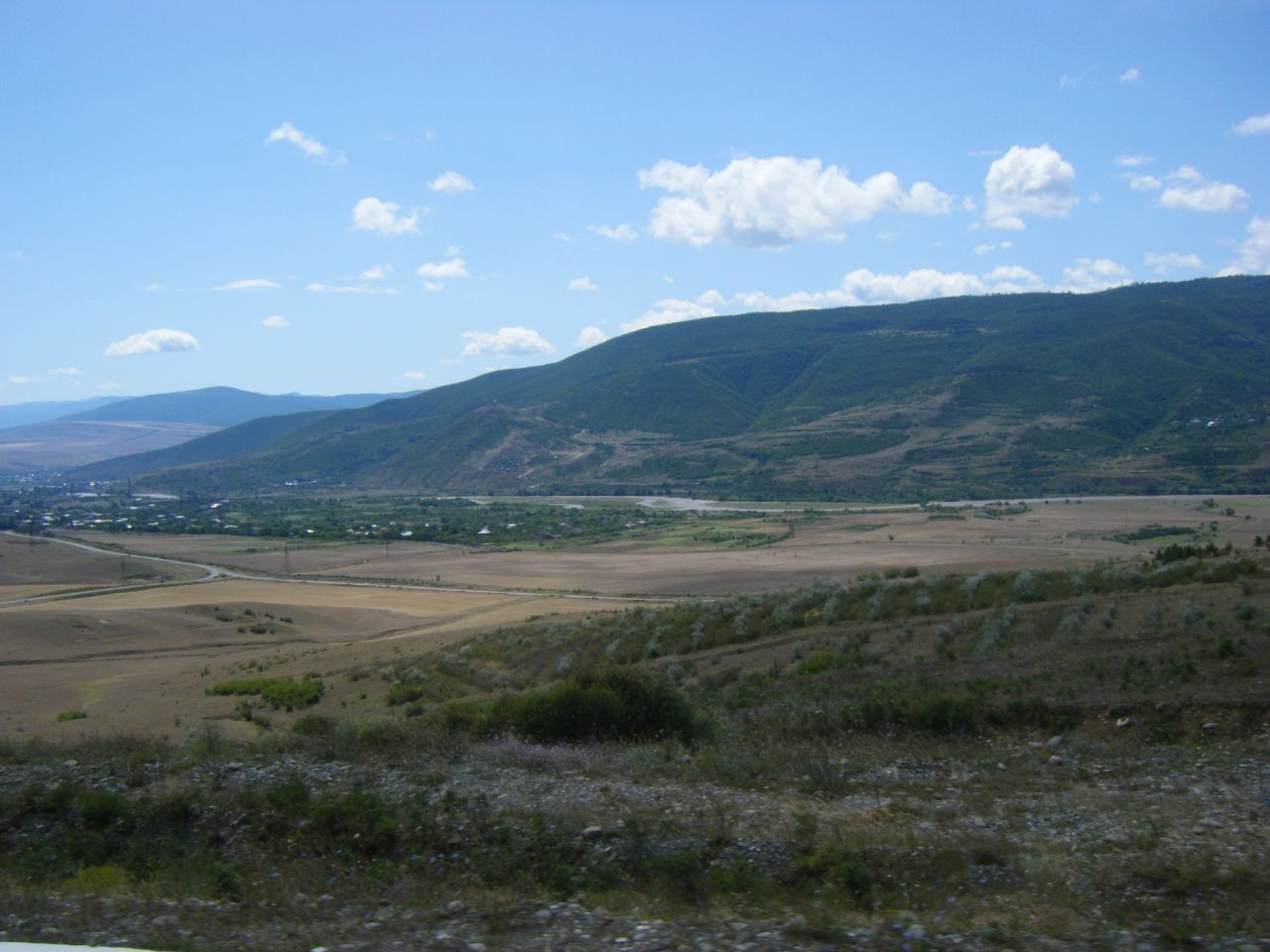 Bardubani. Georgian Countryside07